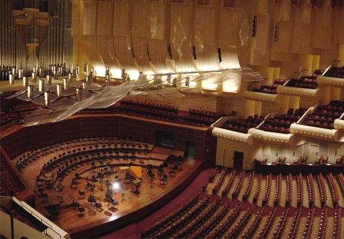 Multiple image composite of the interior of Louise M. Davies Symphony Hall